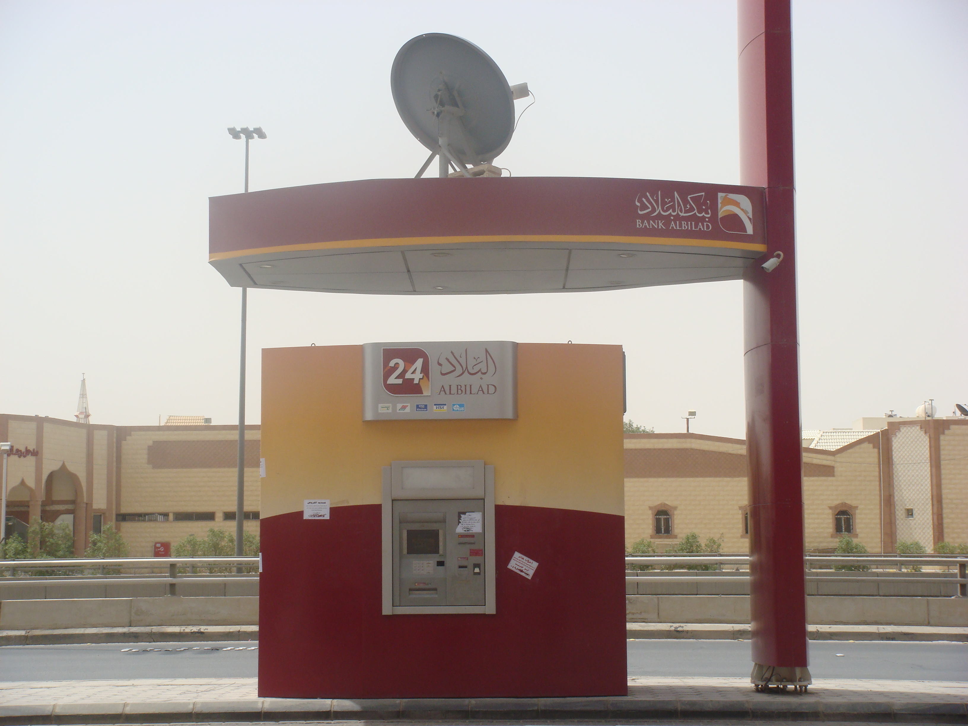 ATM Bank Albilad, Riyadh Saudi Arabia